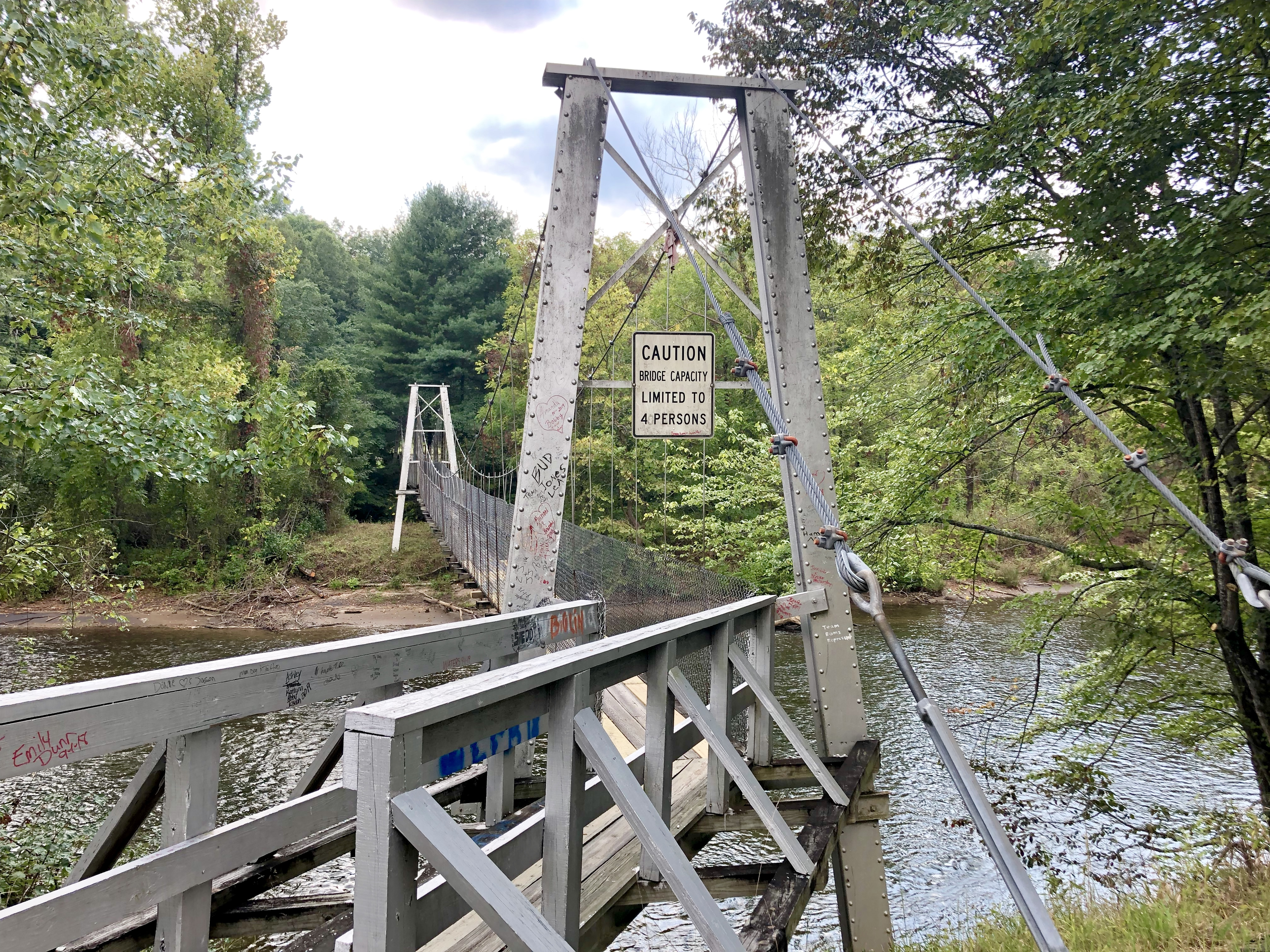 This is the Wilmot Swinging Bridge over the Tuckaseigee River at Wilmot, North Carolina. The bridge was constructed circa 1964, but has some evidence of materials dating back to 1906 being part of the structure, with a Bridge Plate from the Roanoke Bridge Company being present on one of the structural members. The bridge was built to allow residents on the west bank of the river along the Murphy Branch Railroad to access the highway (now US 74-441) on the other side. The bridge structure consists of steel towers, steel cables, and steel hanging rods, while the deck of the bridge and lateral supports are wooden. The bridge is the last of many swinging bridges that once existed in Jackson County, with other bridges known to have been located in Dillsboro and East LaPorte.